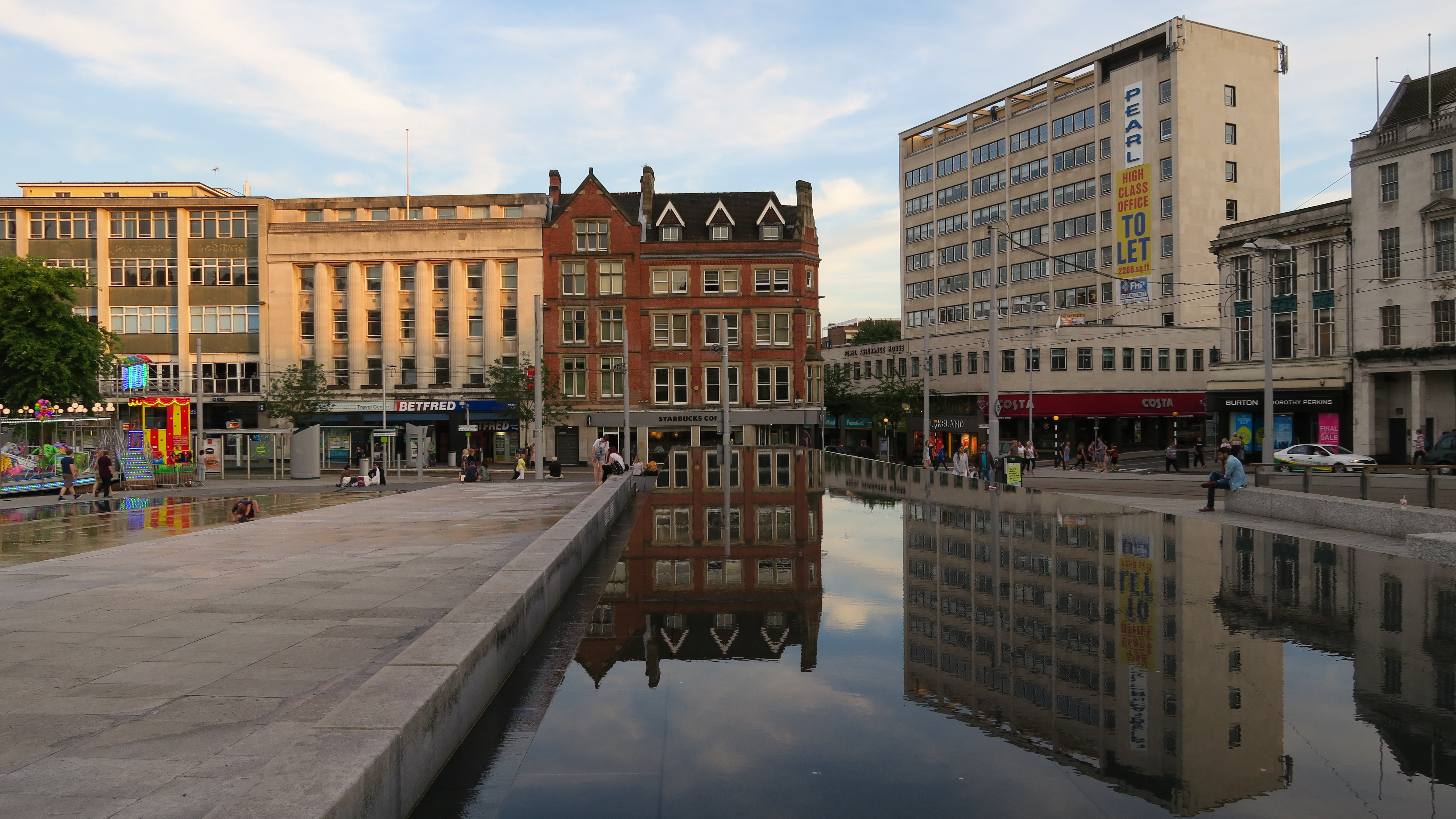 Water reflection at Nottingham old market square